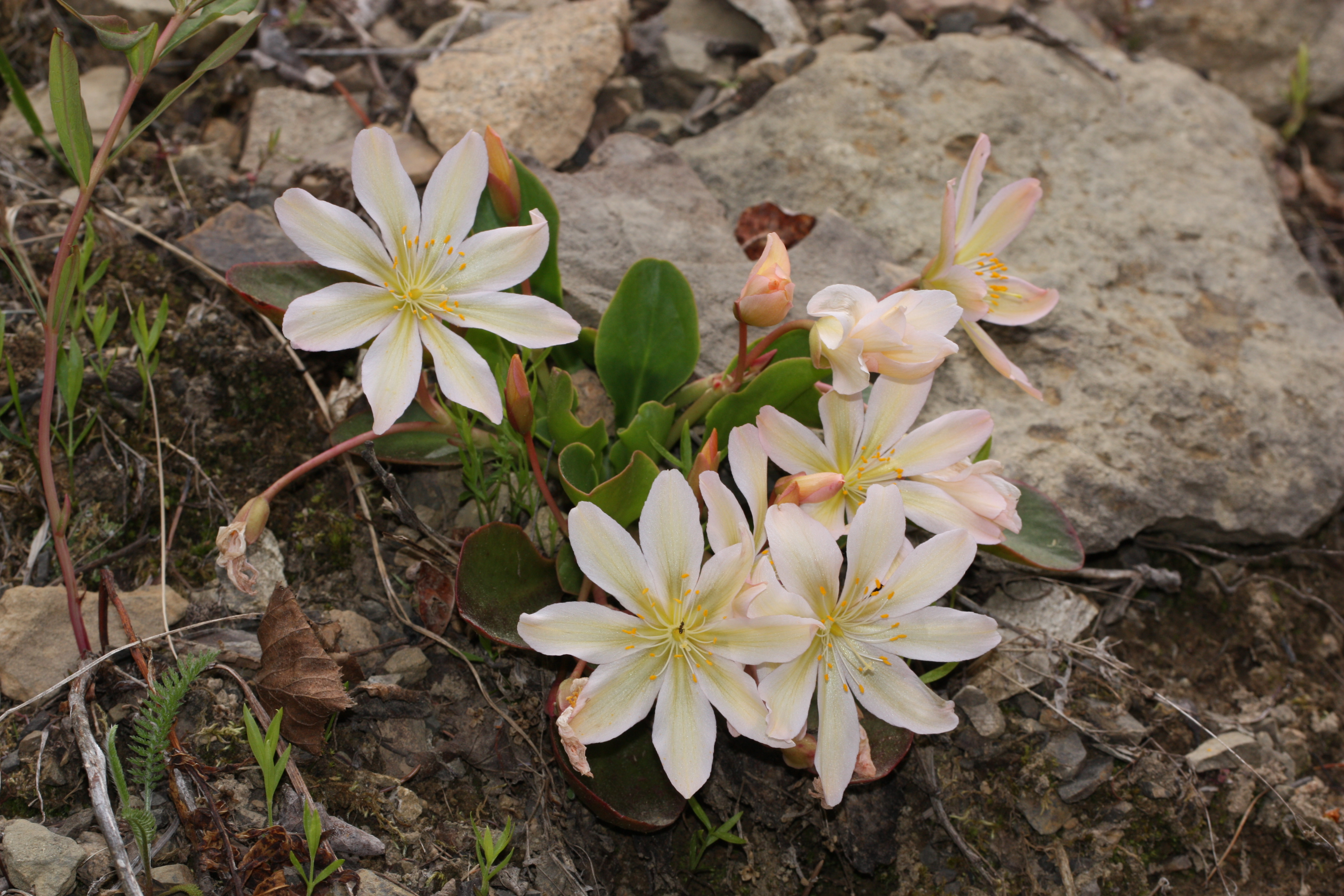 Tweedy's Lewisia Viewpoint location: Tronsen Ridge Trail #1204, Tronsen Ridge Viewpoint elevation: 1134 meter (3720 ft) Location source: Garmin GPSmap 60CSx Location Datum: WGS84